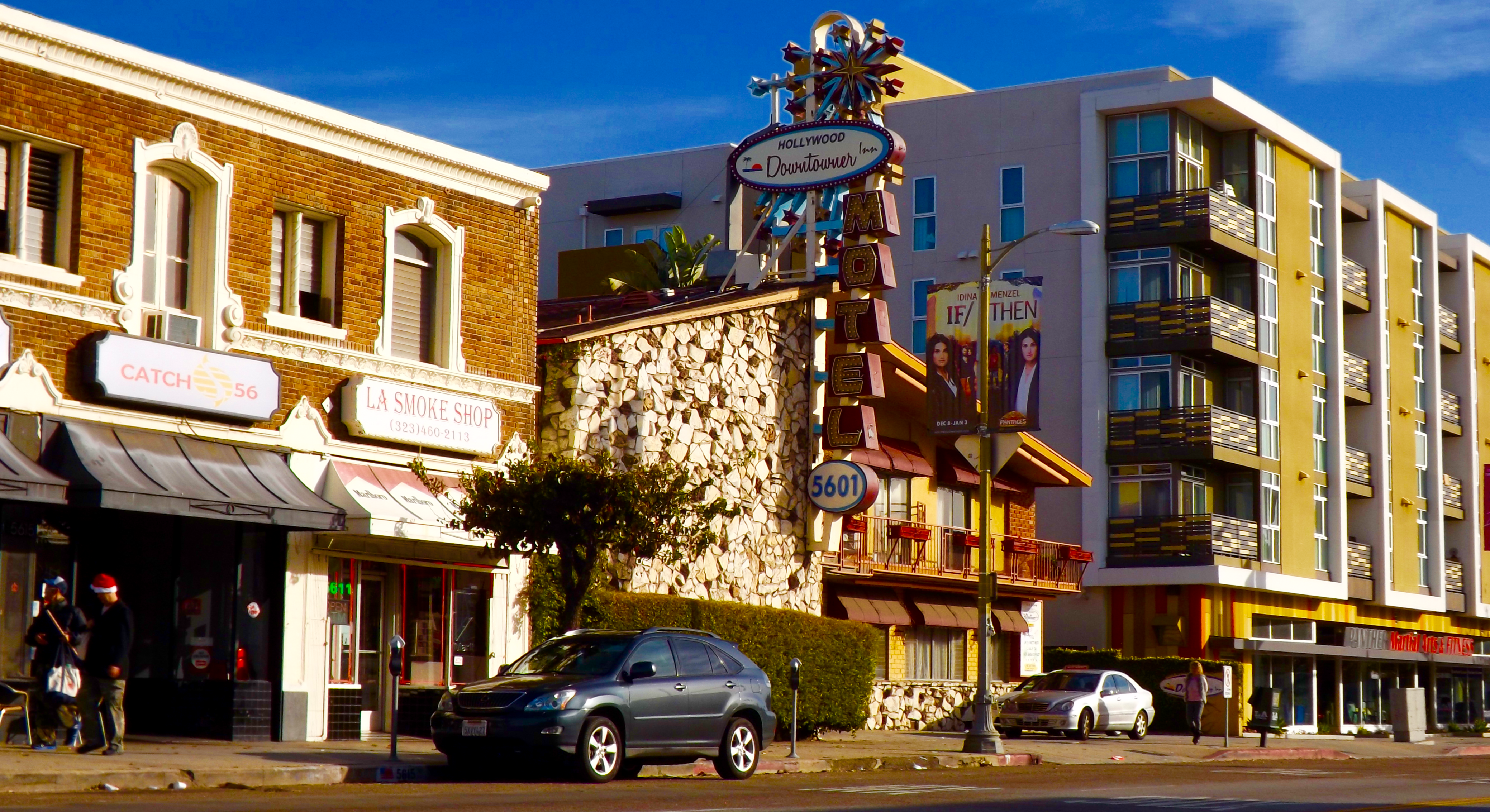 Hollywood Downtowner motel and two other buildings on Hollywood Boulevard in Thai Town, December 24, 2015